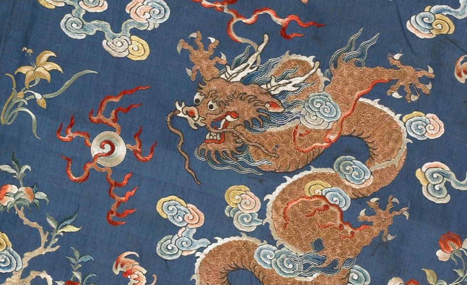 Detail of qifu (imperial dragon robe), late 19th or early 20th century, silk, gilt thread, twill and damask weave, embroidery, Honolulu Academy of Arts